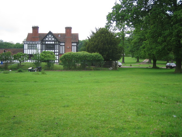 Paris House Woburn estate